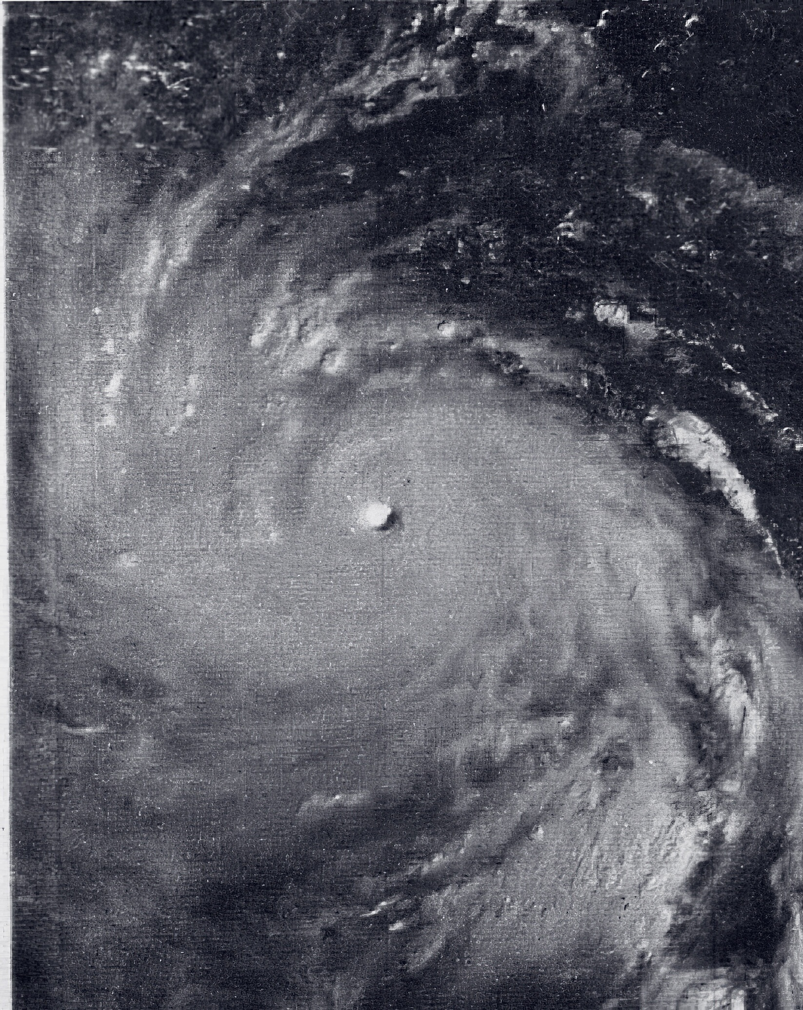 This weather satellite image of Typhoon Nora was taken on October 5, 1975